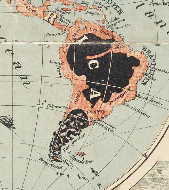 31 x 46 cm Scale ca. 1:80.000.000 Publisher: Basel : Verlag der Missionsbuchhandlung